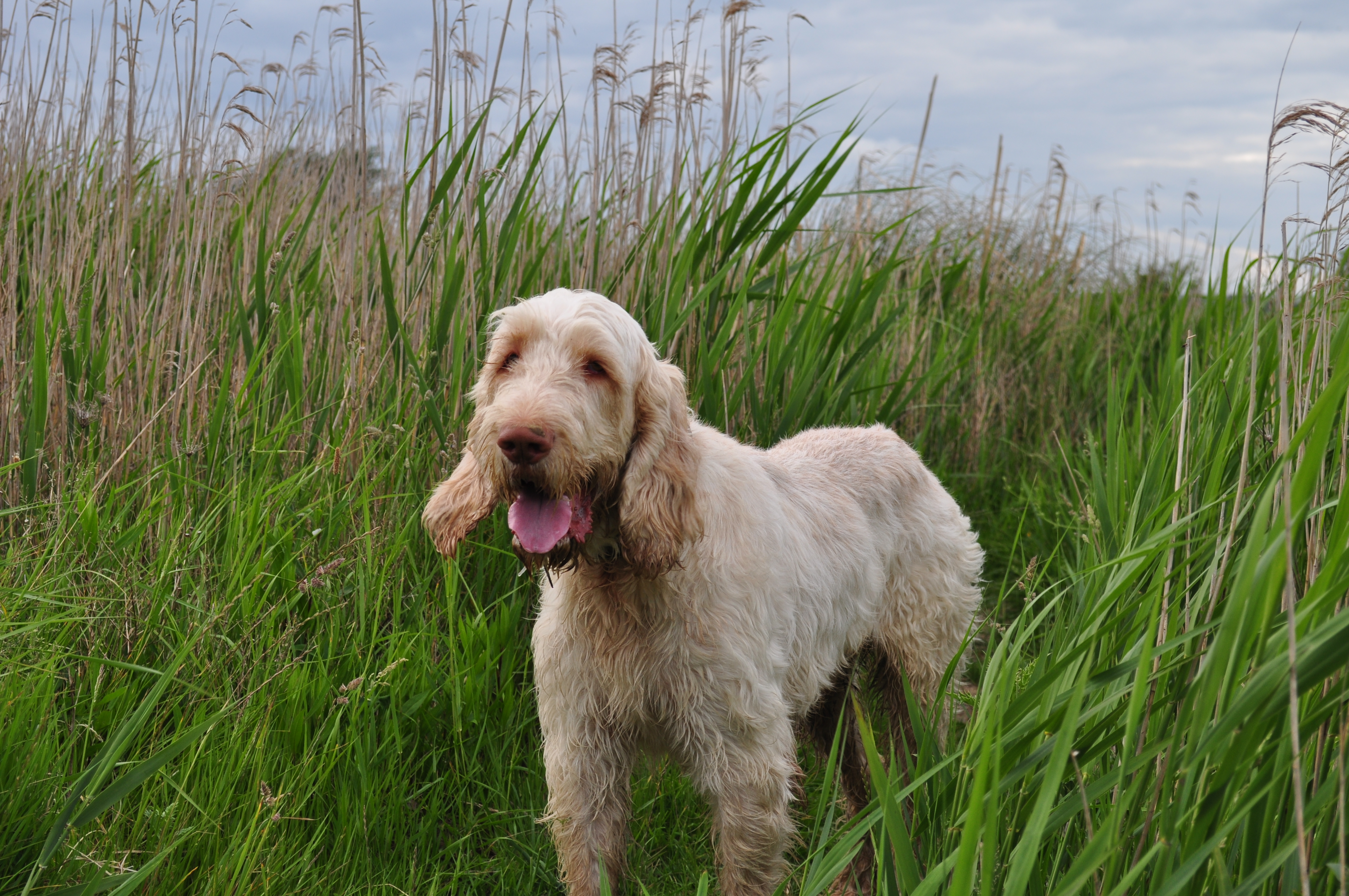 Bumped into this lovely dog whilst walking in Dorset. Took one picture and it then became very scared of the camera (or me).